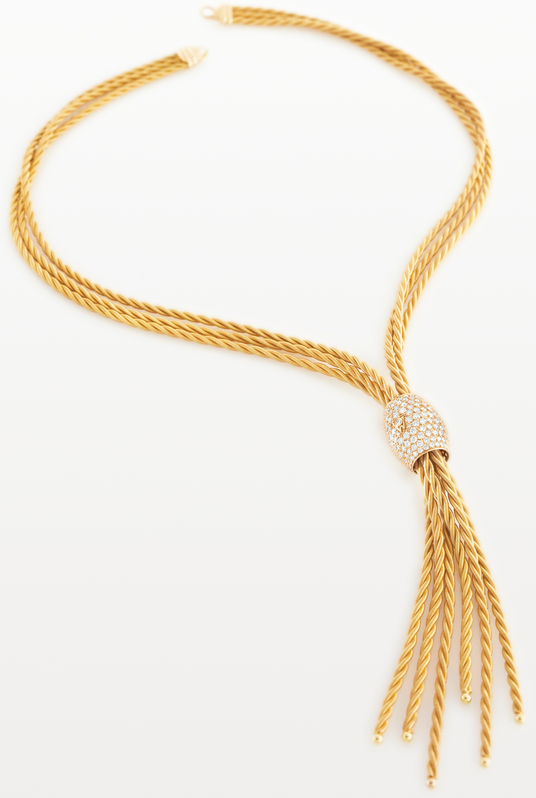 Wellendorff Rope: Diamond Temptation